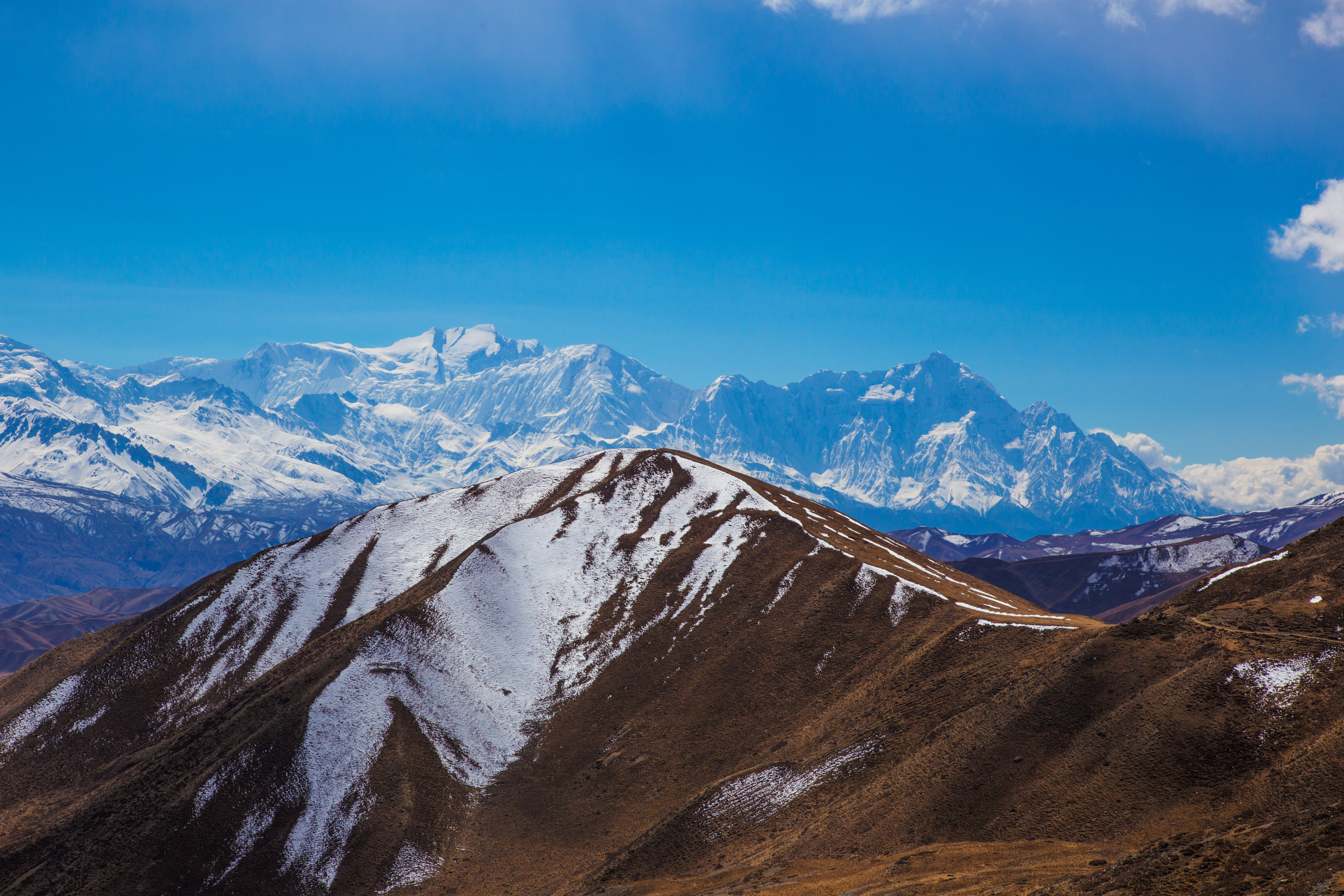 On the way down to Ghar Gompa, right after Marang La, incredible view on the Annapurna range. The highest peak is Annapurna I (8 091 m), then to its right Tilicho (7 134 m) and Nilgiri North (7 061 m).